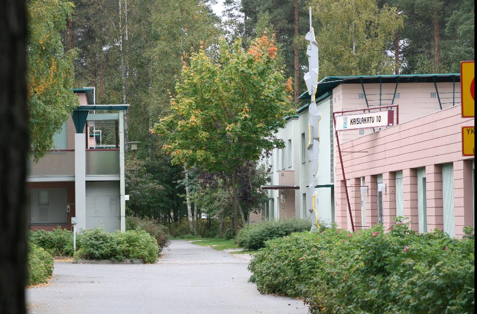 Joensuu Elli, student houses in Kaislakatu 10, Joensuu